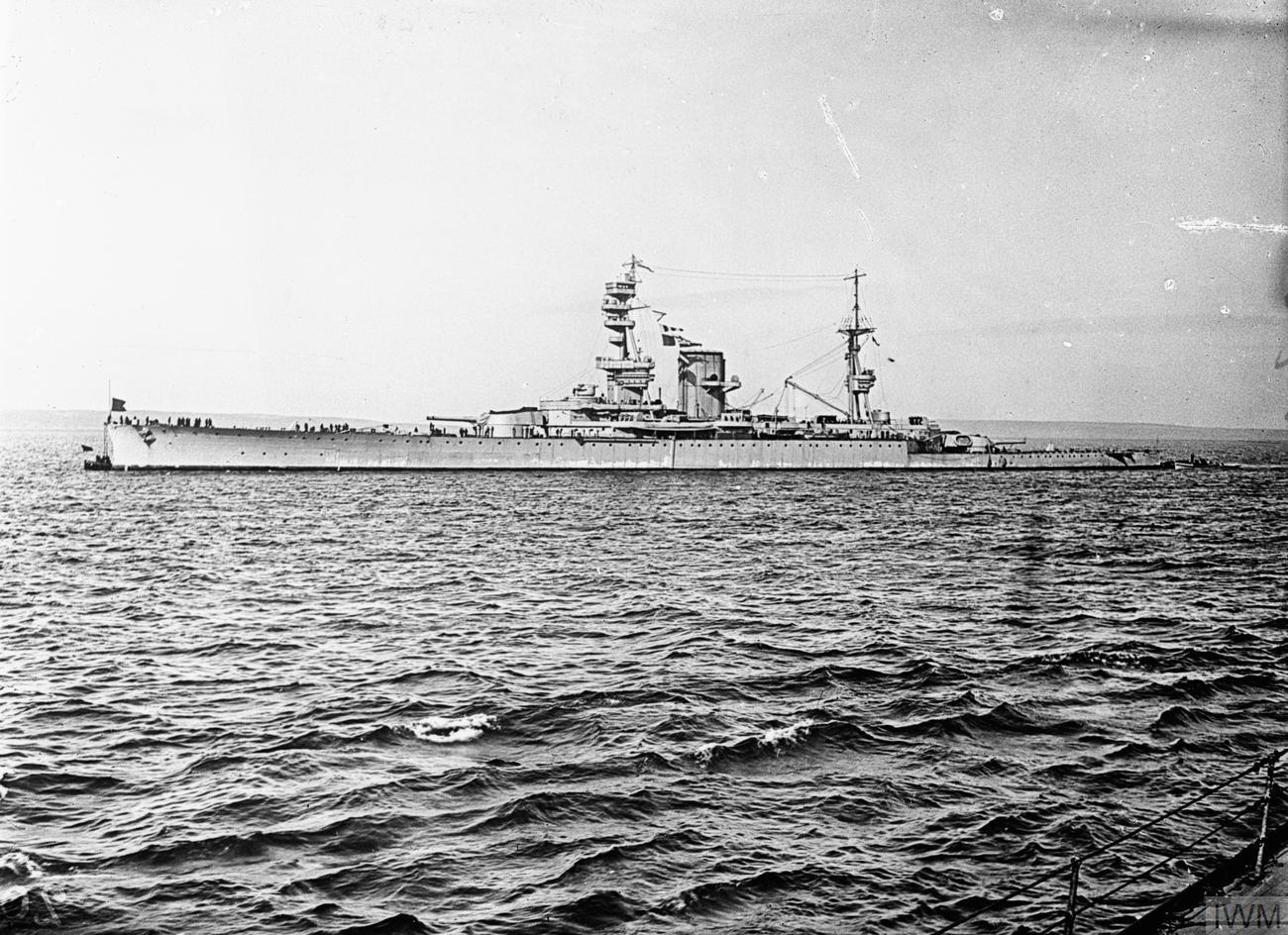 HMS COURAGEOUS shortly after completion, in her original configuration as a large cruiser.